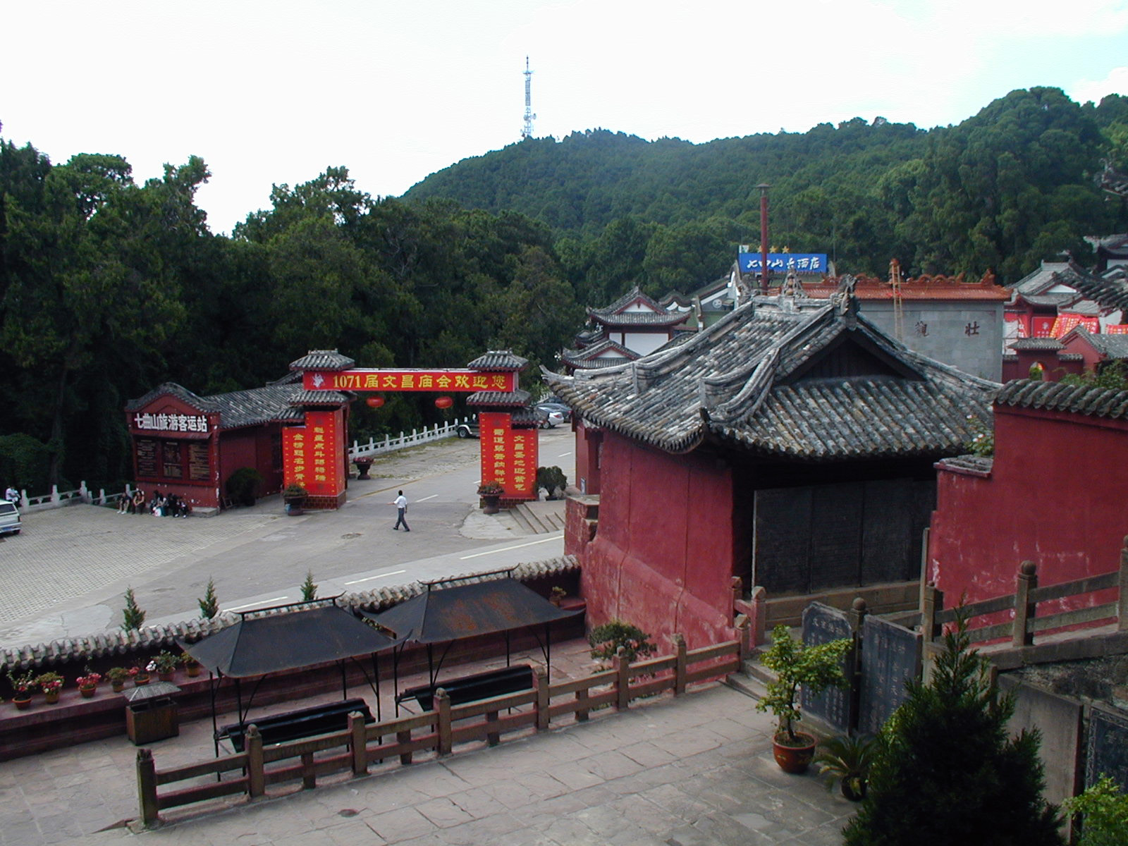 Qiqushan-Temple, Mt. Qiqu, Zitong, Mianyang, Sichuan, China